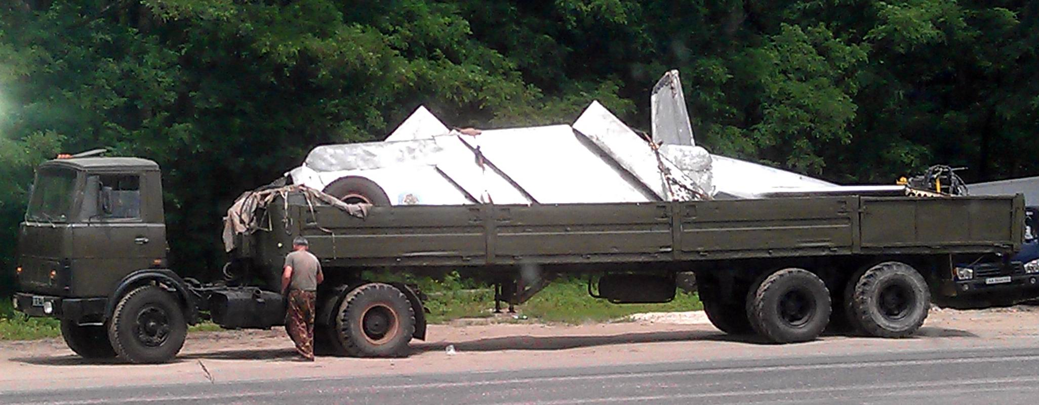 MAZ-5433 articulated lorry, Armed Forces of Ukraine